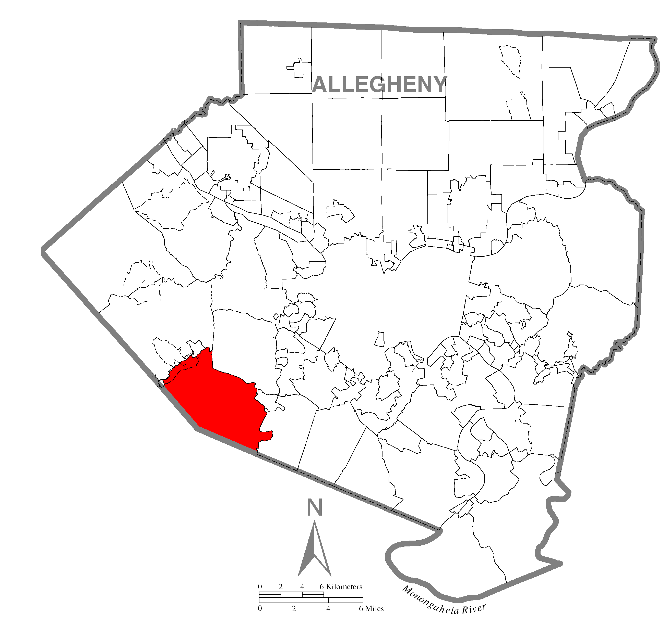 A map of Allegheny County showing South Fayette Township, Pennsylvania (alternate) highlighted on the map.